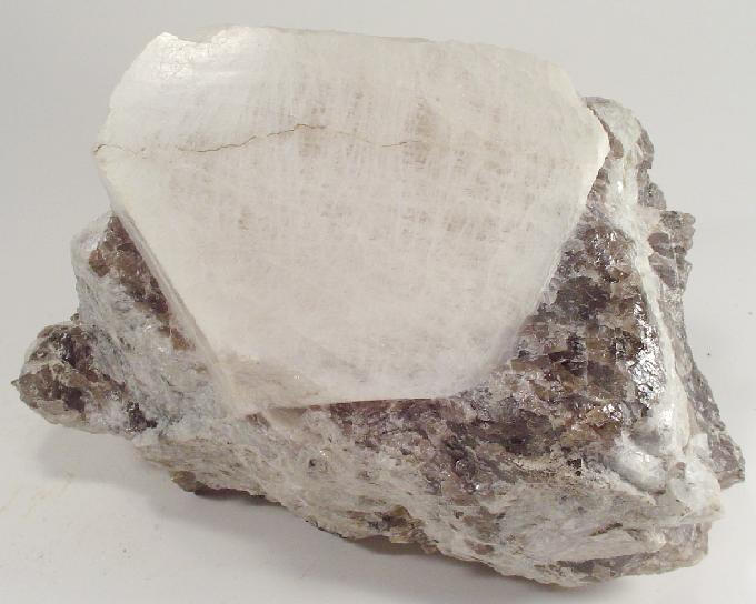 Beryl Locality: Tanco Mine (Bernic Lake Mine), Bernic Lake, Lac-du-Bonnet area, Manitoba, Canada (Locality at ) A HUGE, 10.0 cm, lustrous, pearl-white, Cesium-rich beryl crystal on LARGE CABINET pegmatite matrix from the Tanco Mine in Manitoba, Canada. The mine closed in 1982. The crystal is contacted on one side, but is damage-free and is very large and well-formed otherwise. OK, its ugly BUT extremely rare and significant in the world of beryl collecting, or for a Canadian collection. Choice material from the Lewadny Collection. 16.2 x 12.5 x 10.3 cm